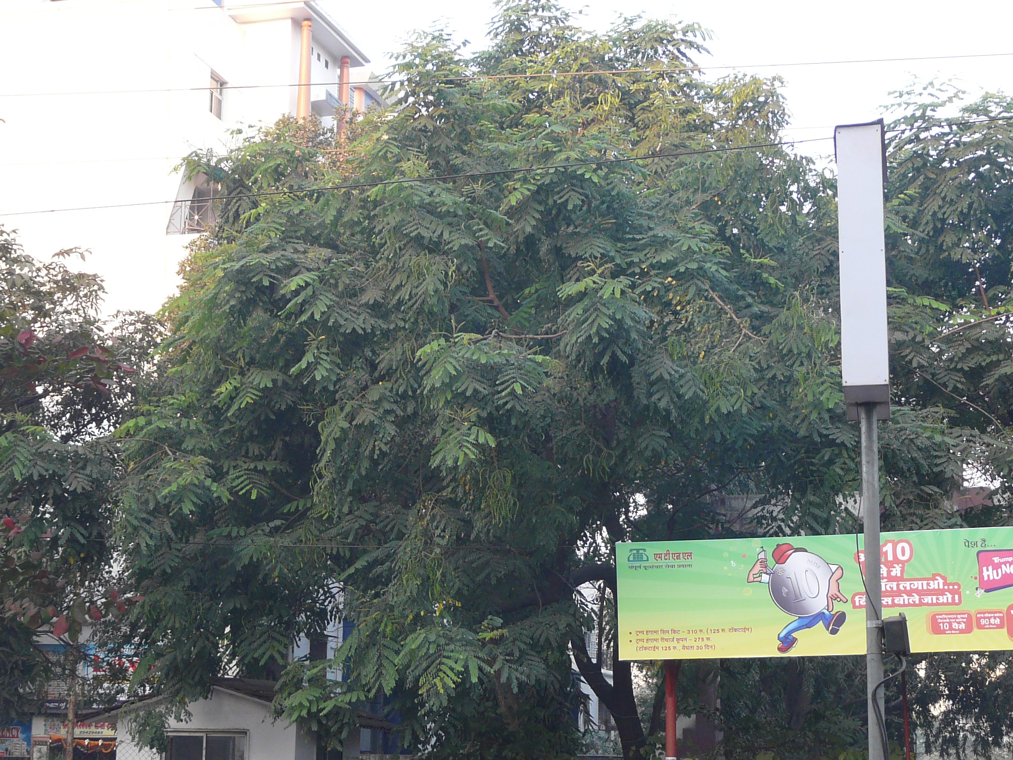 Fabaceae (pea, or legume family) » Adenanthera pavonina ad-en-AN-ther-uh -- from the Greek aden (gland) and anthera (anther) pav-ON-ee-nuh -- meaning, like a peacock commonly known as: acacia coral, barbados pride, coral bean tree, false wiliwili, peacock flower fence, red sandalwood, saga seed tree • Assamese: raktchandan • Bengali: রঞ্জন ranjana • Gujarati: બડી ગુમ્ચી badigumchi • Hindi: बड़ी गुम्ची badi gumchi, कुचन्दन kuchandana, रक्तचन्दन raktchandan, रंजना ranjana, रतनगुंज ratangunja • Kannada: ane golaganji, manjadi, munjuti • Konkani: होडी मंजोटी hodi manjoti, गूंज gunja, ओडलि गुंजी odlygunji • Malayalam: mancati, manchadi, sem • Marathi: रक्तचंदन raktachandana, रतनगुंज ratangunja, थोरला गुंज thorla gunja • Oriya: sokakainjo • Sanskrit: रक्तचन्दन raktachandana, ताम्रक tamraka, तिलक tilakah • Tamil: மஞ்சாடி manjati, திலம் tilam • Telugu: బండిగురువెంద bandiguruvenda, పెద్దగురుగింజ peddaguruginja Native of: India ... medium to large-sized deciduous tree ... about 18 - 45 ft in height ... with pinnately compound leaves and dense racemes of fragrant, light-yellow to orange blossoms. ... the hard, reddish wood is used to make cabinets, often in place of true sandalwood. References: Flowers of India • PIER species info • Zipcode Zoo